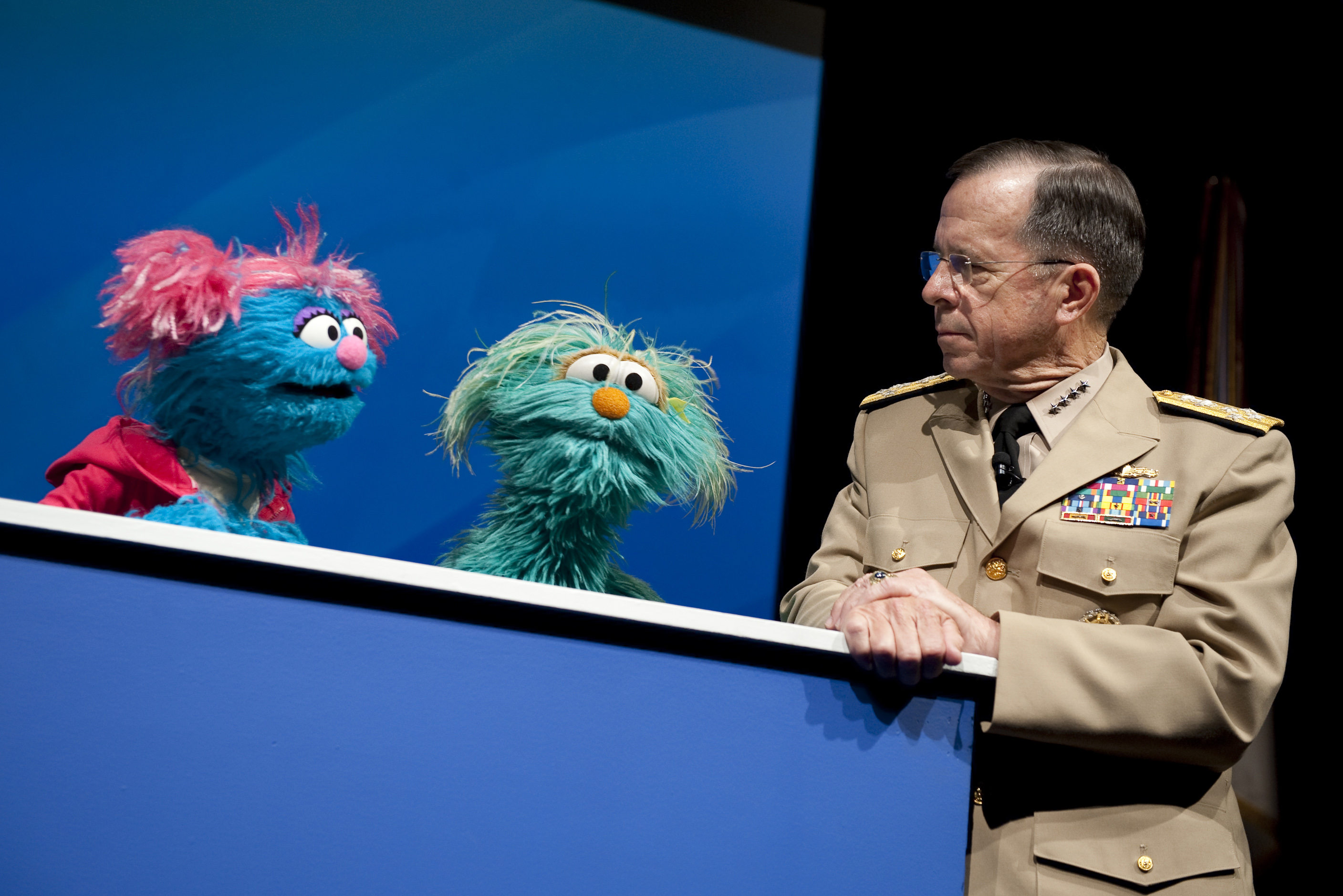 Chairman of the Joint Chiefs of Staff Adm. Mike Mullen speaks with Sesame Street Muppets Jesse and Rosita at a preview of the PBS special "When Families Grieve" in the Pentagon on April 13, 2010. The program portrays the tales of children coping with the loss of a parent and skills that have helped them move forward.